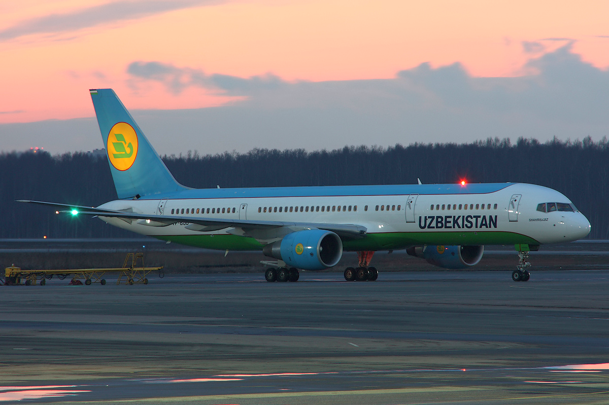 An Uzbekistan Airways Boeing 757-23P at Pulkovo Airport (LED / ULLI)